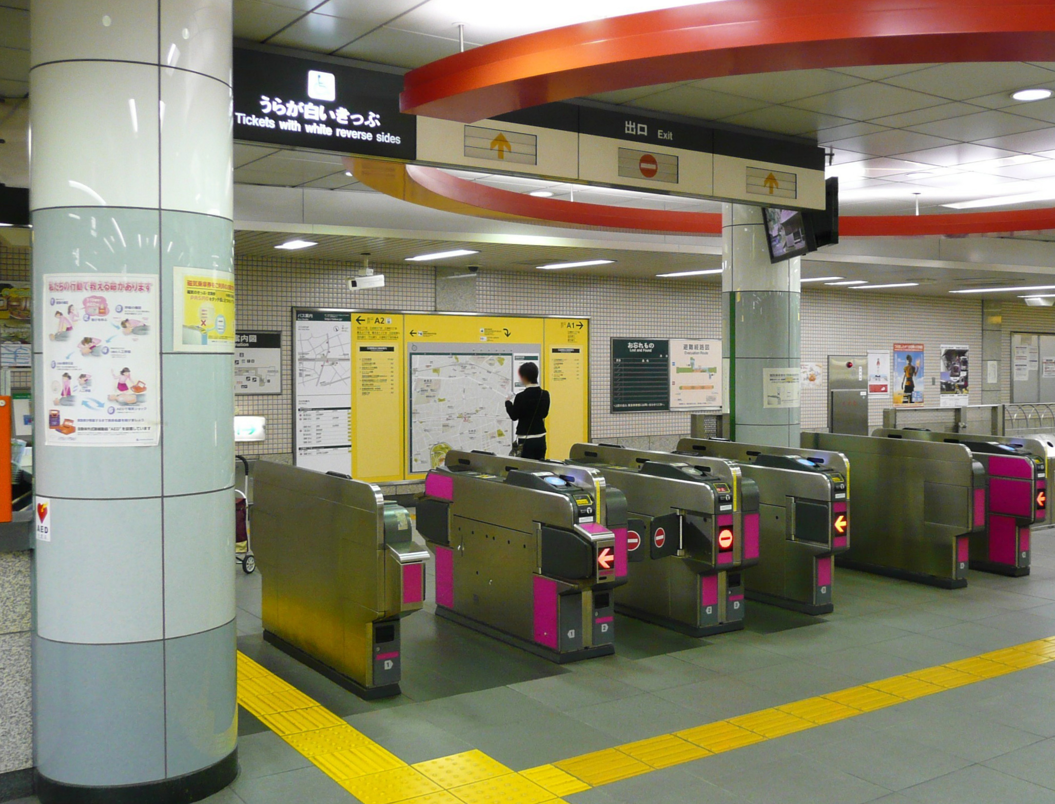 The ticket barriers (viewed form the inside) at Shin-egota Station on the Toei Oedo Line in Tokyo, Japan